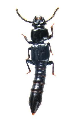 Plastus rhombicus (scale bar = 1 mm)